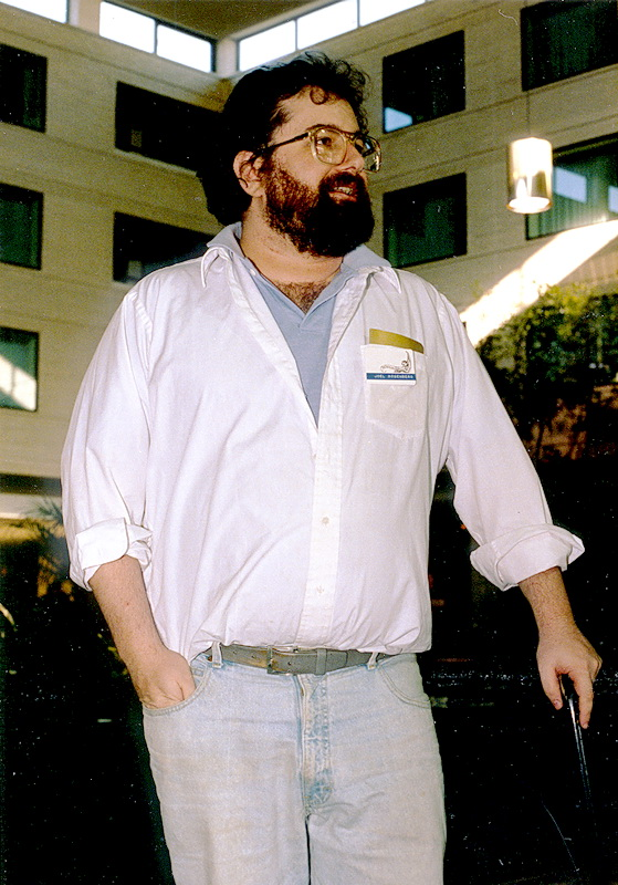 Science fiction and fantasy author Joel Rosenberg, at the Chicago-area convention Windycon in October 1987